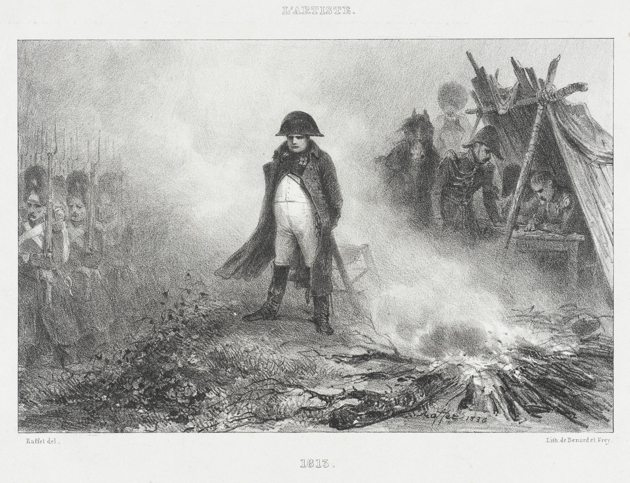 France, 1836 Prints; lithographs Lithograph Gift of David Rose in memory of Ida Rose (AC1992.169.16) Prints and Drawings